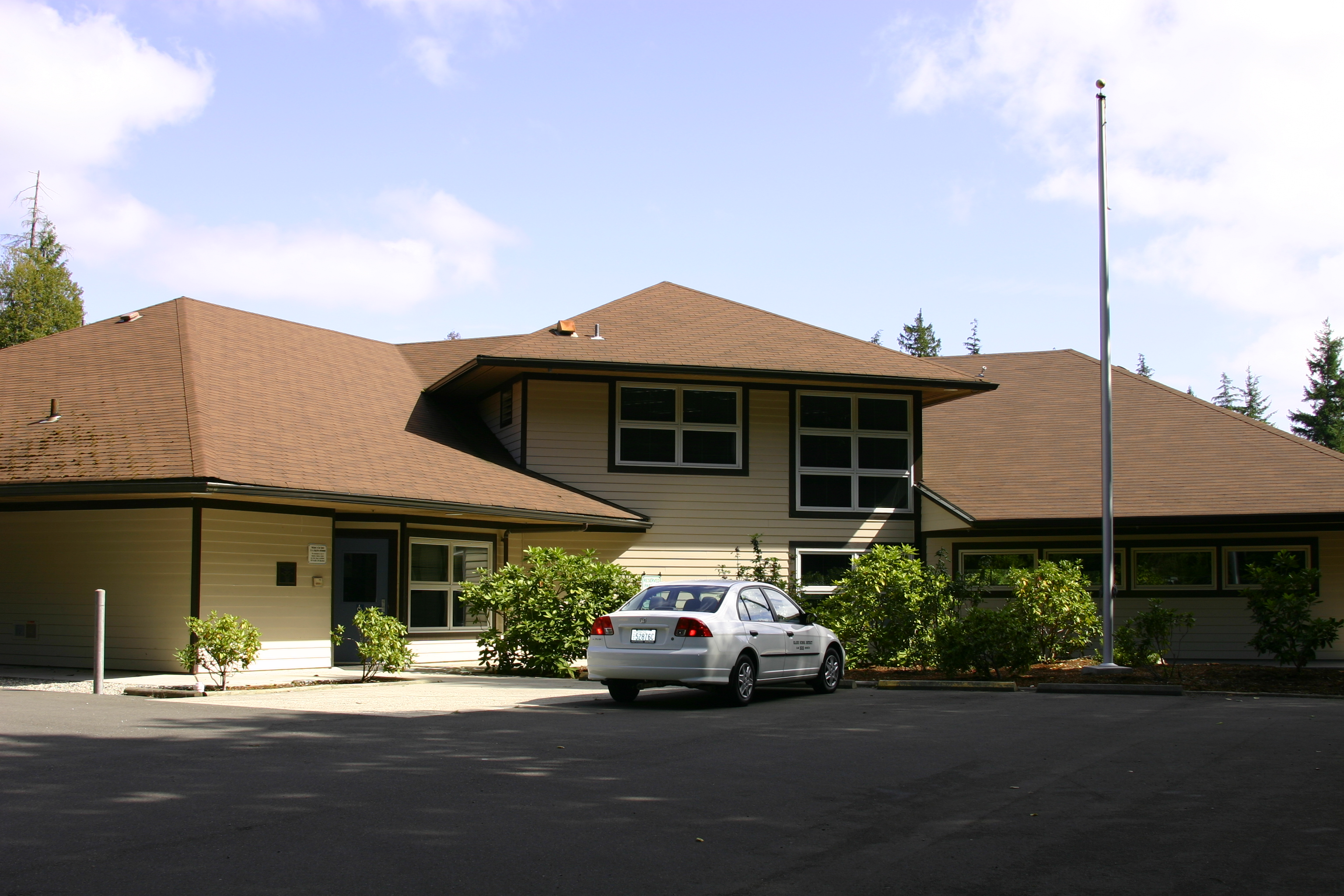 Point Roberts elementary school.